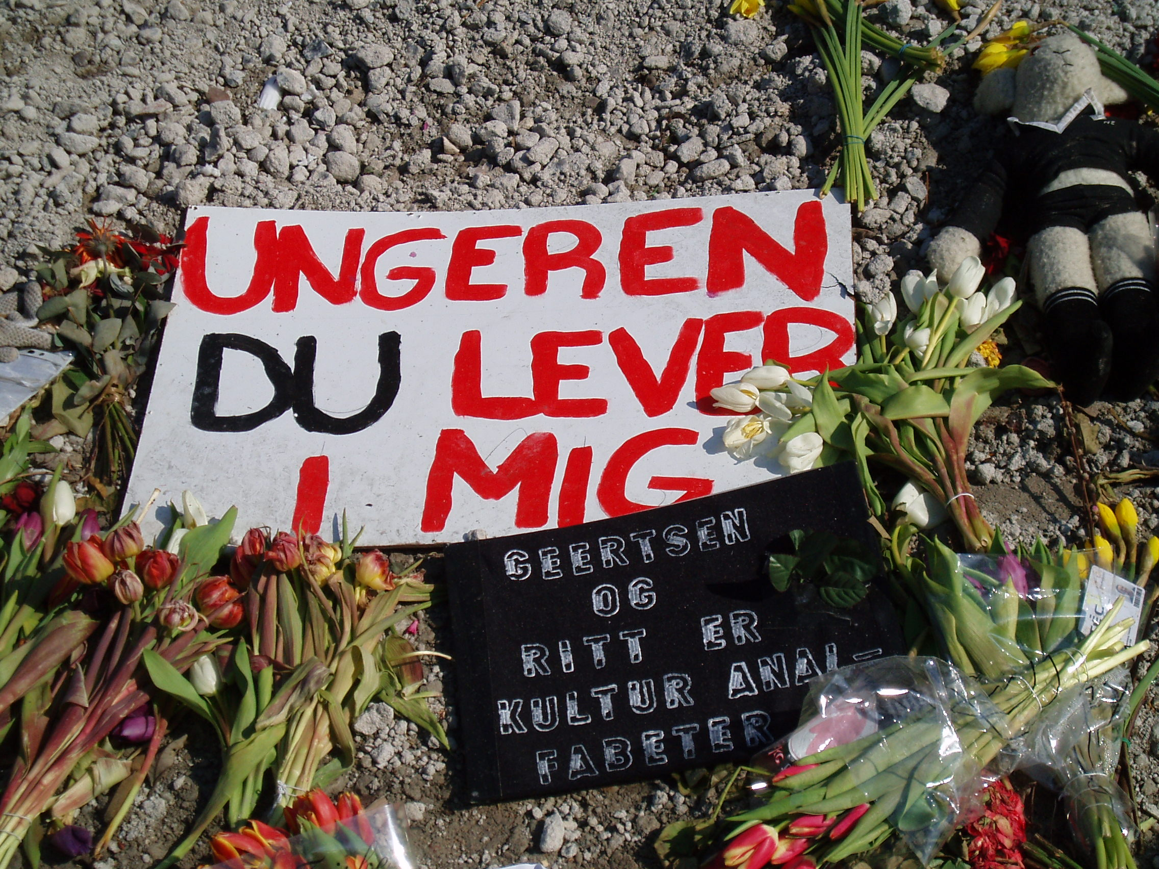 Large sign reads "Ungeren you live inside me" ("Ungeren" is Danish slang for Ungdomshuset) Smaller sign reads "Geertsen and Ritt are culture illiterates." Martin Geertsen is mayor in charge of cultural affairs, Ritt Bjerregaard is lord mayor - both of Copenhagen Municipality.